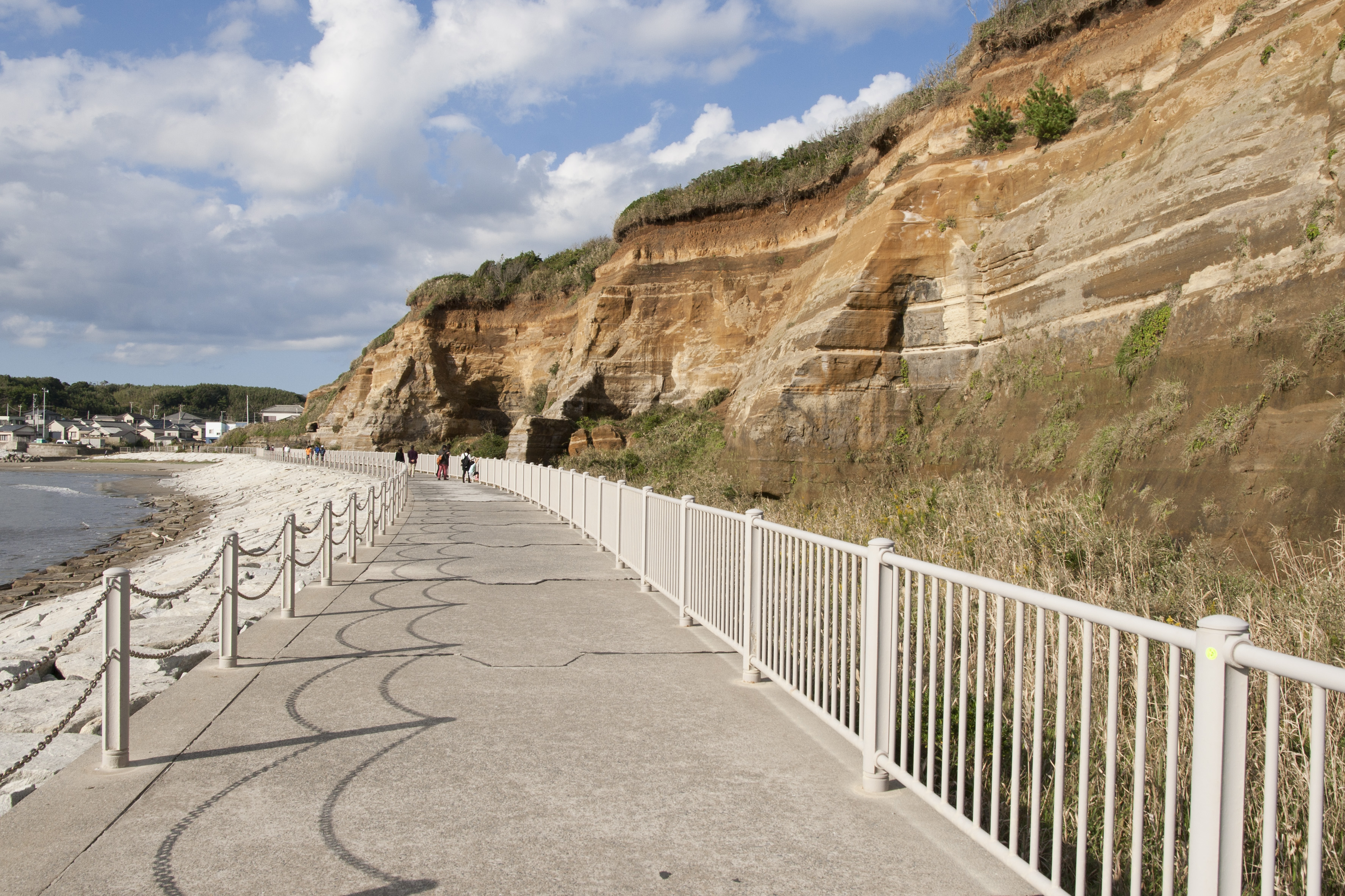 Byōbugaura(Byōbu-ga-ura びょうぶがうら 屏風ヶ浦), Choshi City, Chiba Pref., Japan